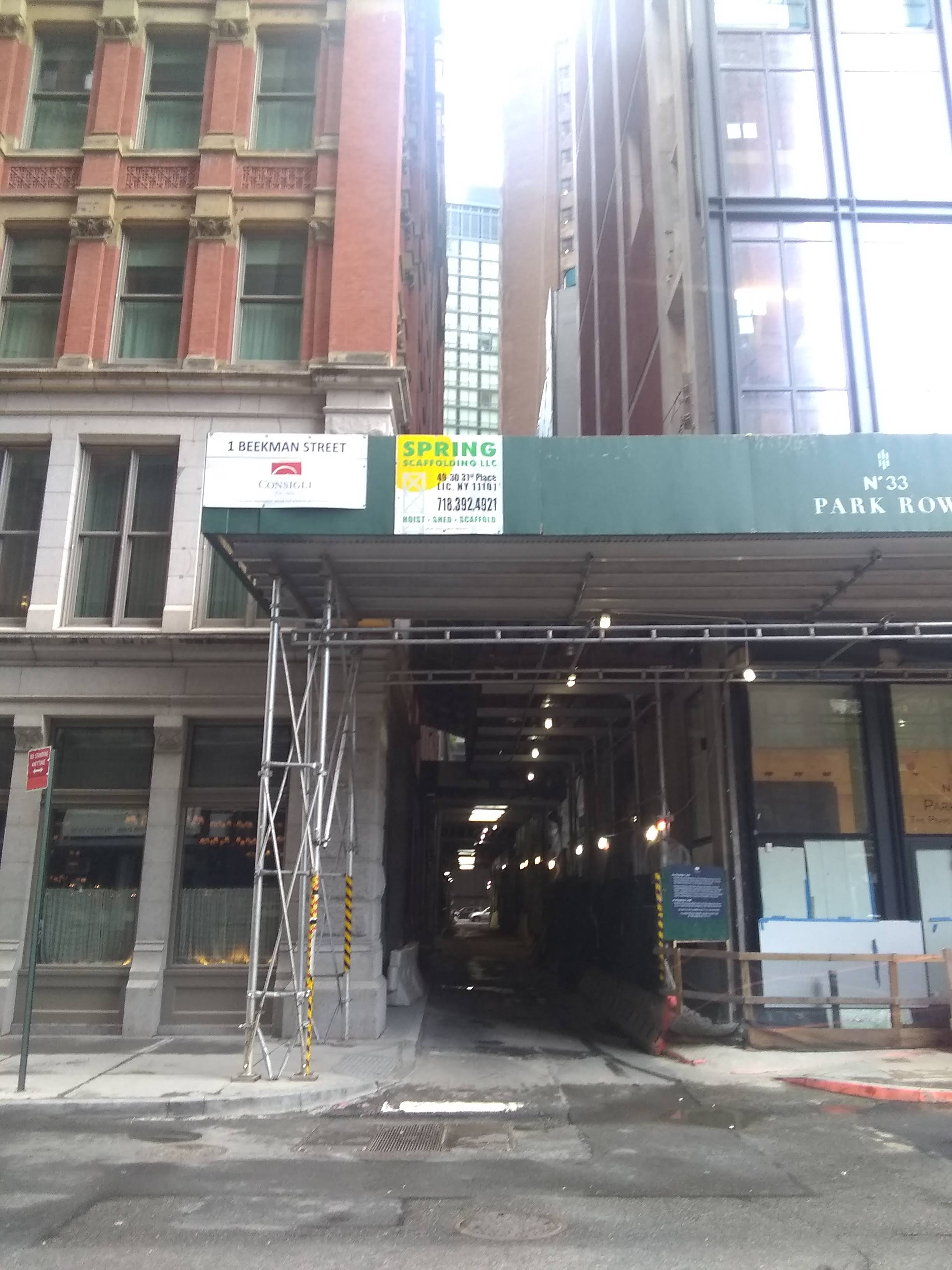 Buildings in the Civic Center of Manhattan, New York City, in August 2020. From left to right: Temple Court Building, 33 Park Row. Theater Alley in center